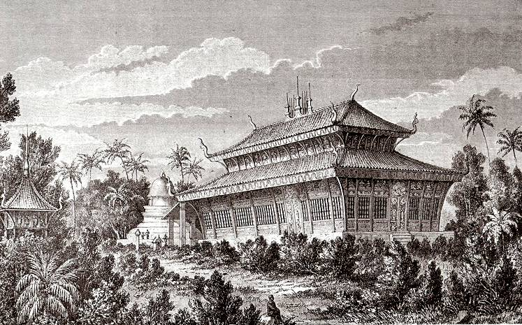 Wat Visoun, the oldest temple in continuous use in Luang Prabang, Laos as depicted by Louis Delaporte part of the Mekong Expedition led by Francis Garnier (c.1867)